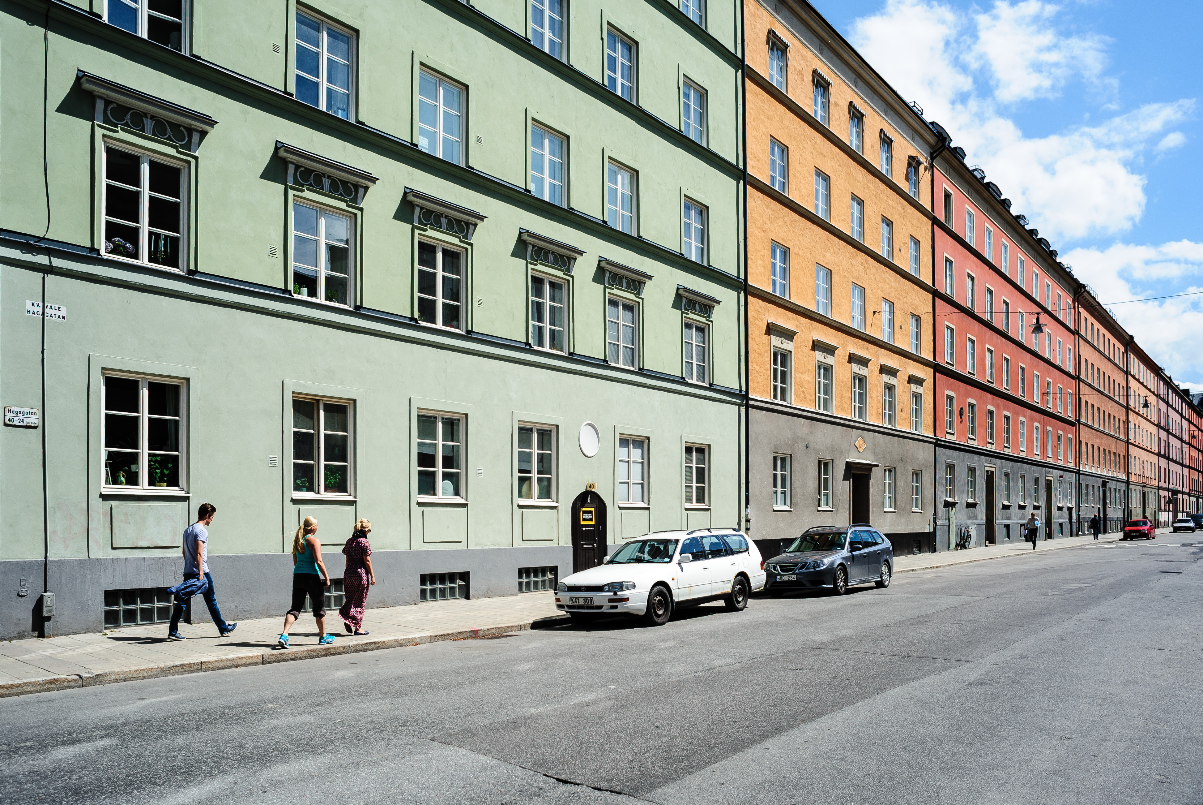 Kvarter ("block") Vale. Characteristic 1920's buildings.